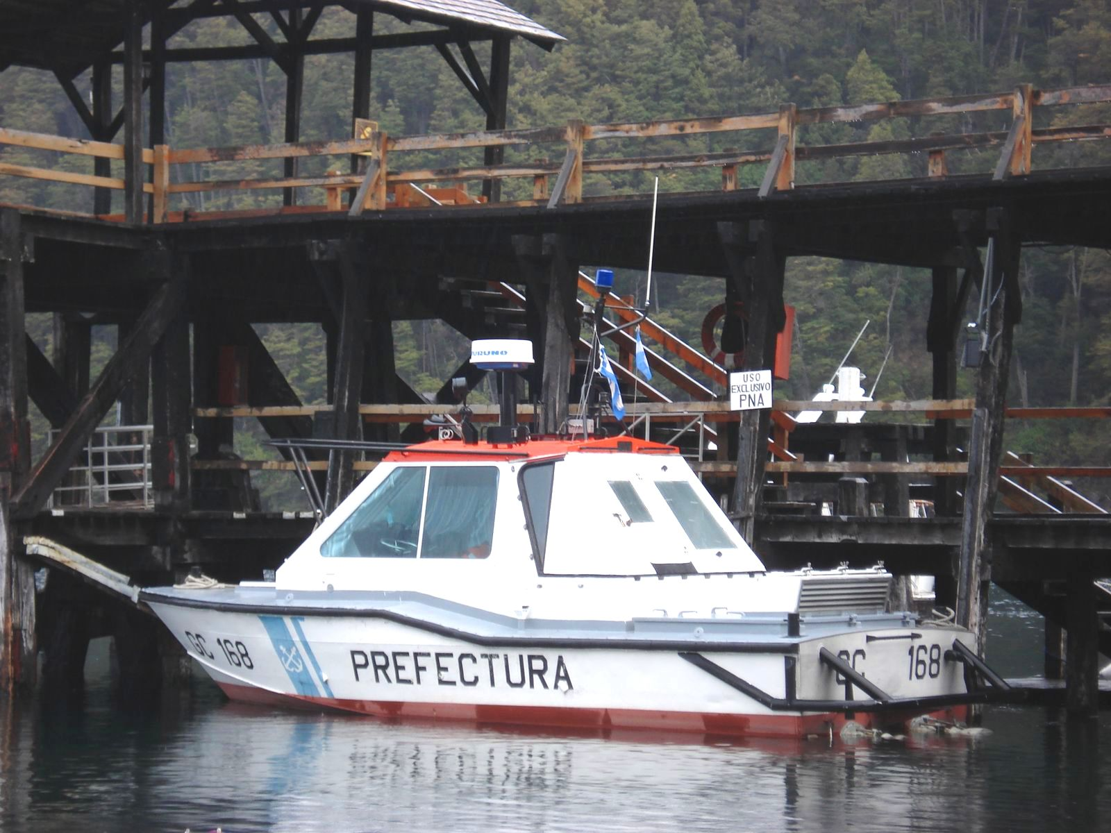 Prefectura Naval Argentina's Ship in Nahuel Huapi Lake in Villa La Angostura, Argentina.